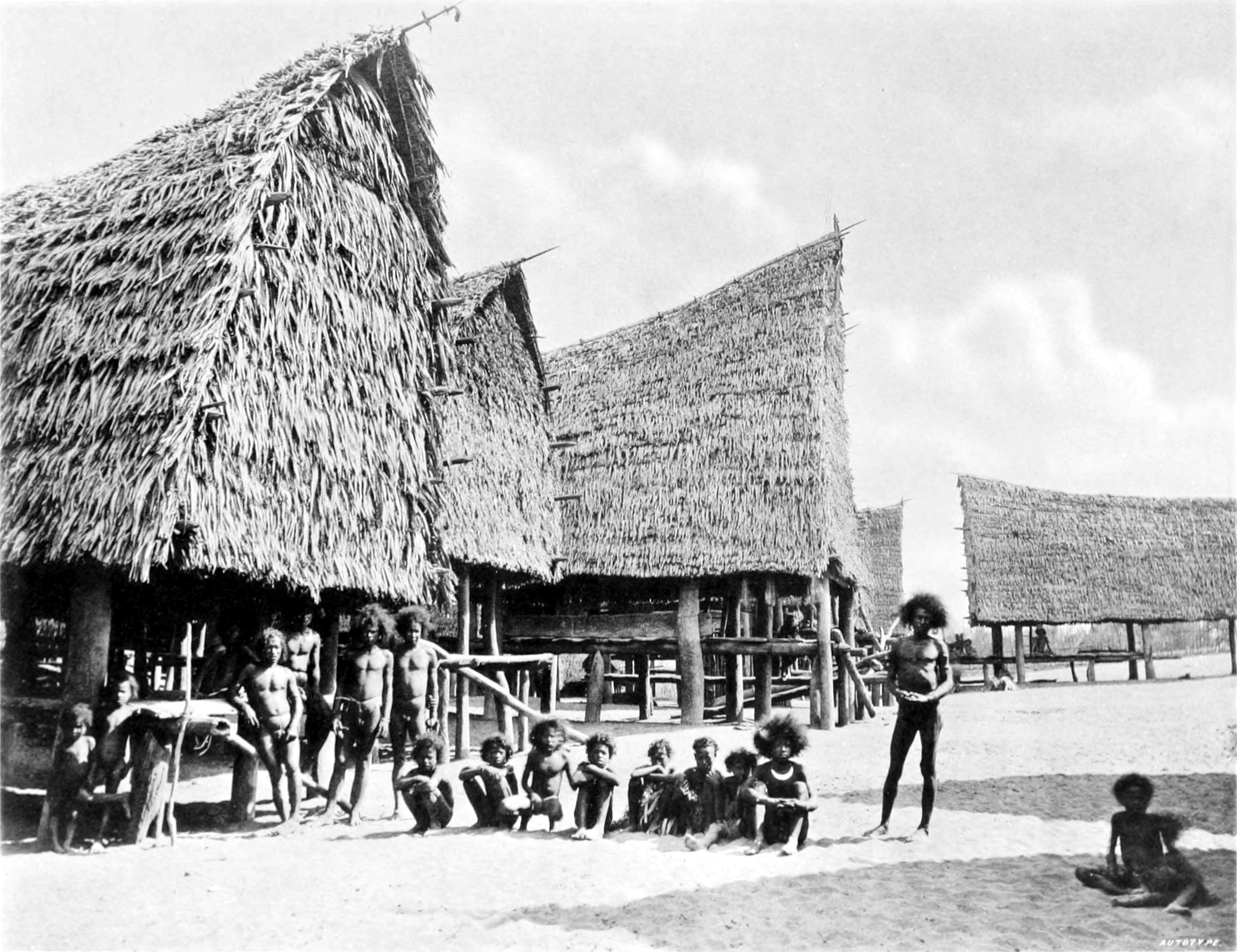 Village scene at Moapa, Aroma District, British New Guinea.